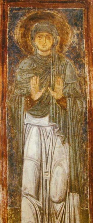 St. Macrina the Younger (fresco in Saint Sophia Cathedral in Kiev)